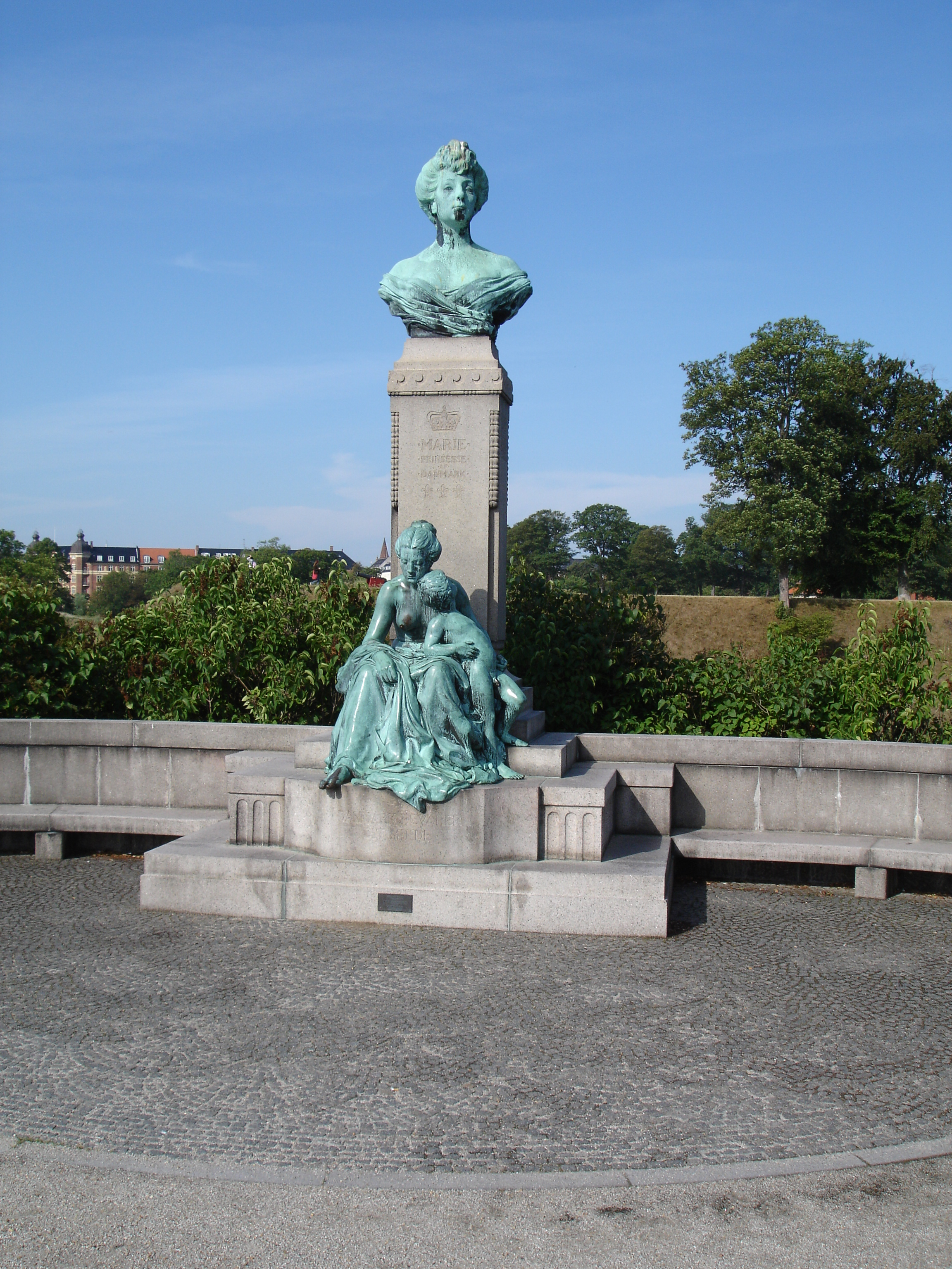 Monument conmemorating Princess Marie of Orléans (1865–1909) at Langelinie in Copenhagen, Denmark